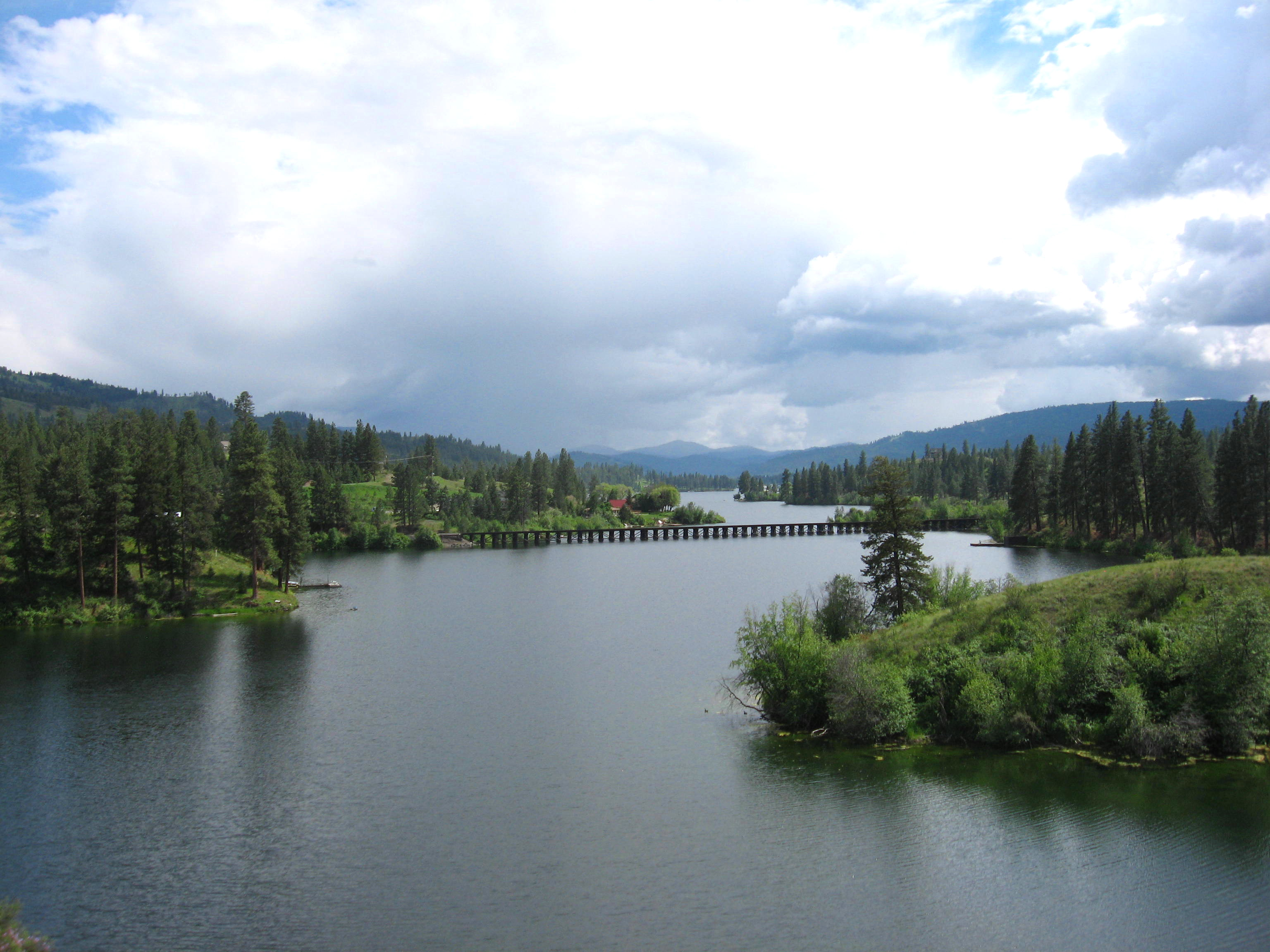 Looking south down Curlew Lake from West Curlew Lake Rd. Ferry County, Washington, USA